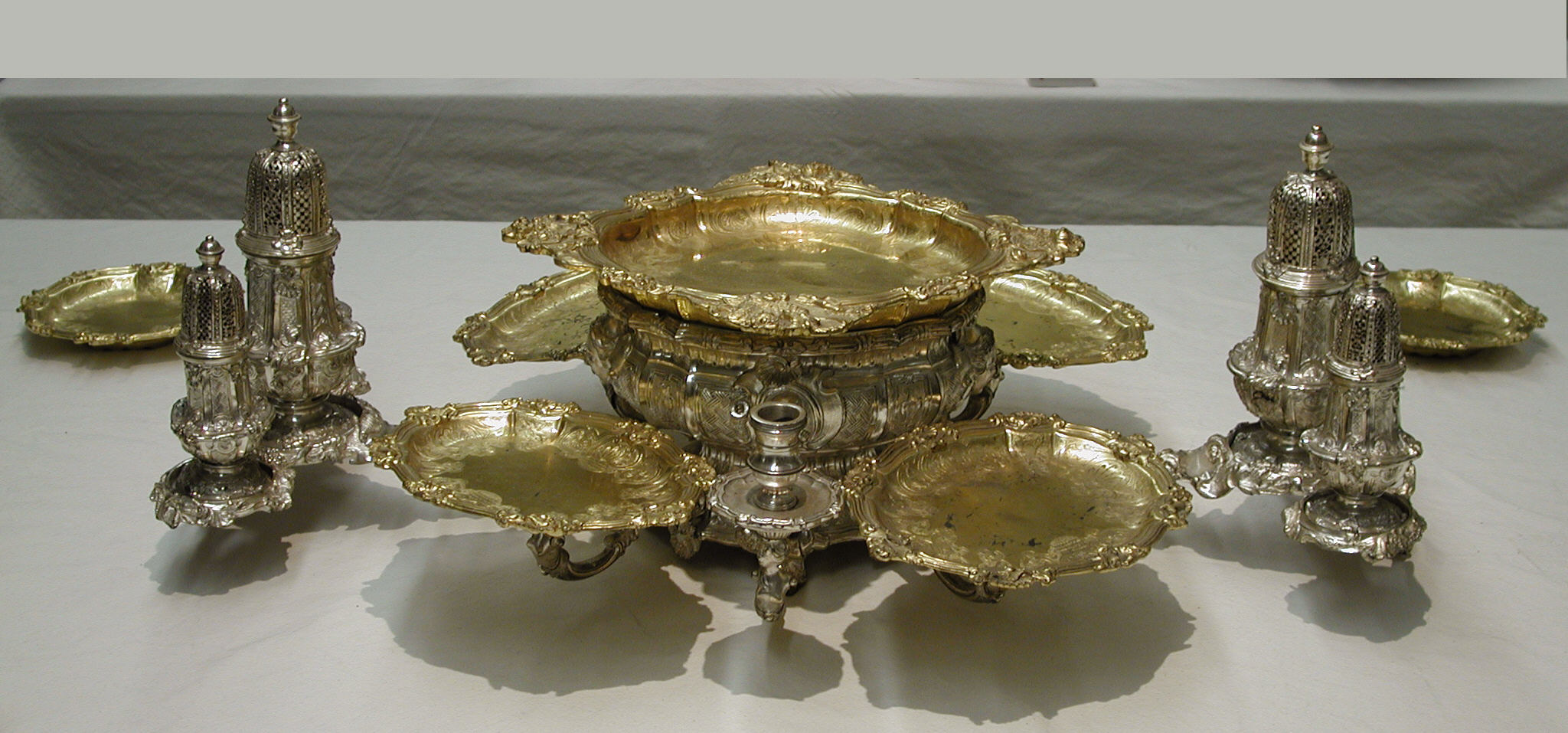 British, after British, London original; Centerpiece; Metalwork-Electrotype